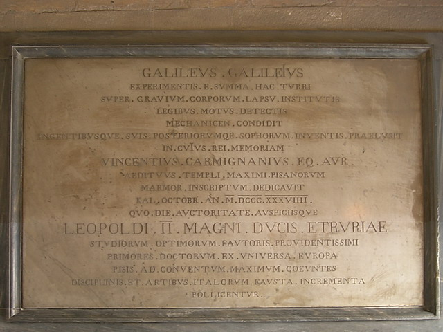 Plaque in memory of Galileo Galilei's experiments on the Leaning Tower of Pisa GALILEVS GALILEIVS EXPERIMENTIS.E.SVMMA.HAC.TVRRI LEGIBVS.MOTVS.DETECTIS MECHANICEN.CONDIDIT INGENTIBVSQVE.SVIS.POSTERIORVMQE.SOPHORVM.INVENTIS.PRAELVSIT IN.CVIVS.REI.MEMORIAM VINCENTIVS.CARMIGNANIVS.EQ.AVR. AEDITVVS.TEMPLI.MAXIMI.PISANORVM MARMOR.INSCRIPTVM.DEDICAVIT KAL.OCTOBR.AN.M.DCCC.XXXVIIII. QVO.DIE.AVCTORITATE.AVSPICIISQVE LEOPOLDI, II.MAGNI.DVCIS.ETRVRIAE STVDIORVM.OPTIMORVM.FAVTORIS.PROVIDENTISSIMI PRIMORES.DOCTORVM.EX.VNIVERSA.EVROPA PISIS.AD.CONVENTVM.MAXIMVM.COEVNTES DISCIPLINIS.ET.ARTIBVS.ITALORVM.FAVSTA.INCREMENTA POLLICENTVR.